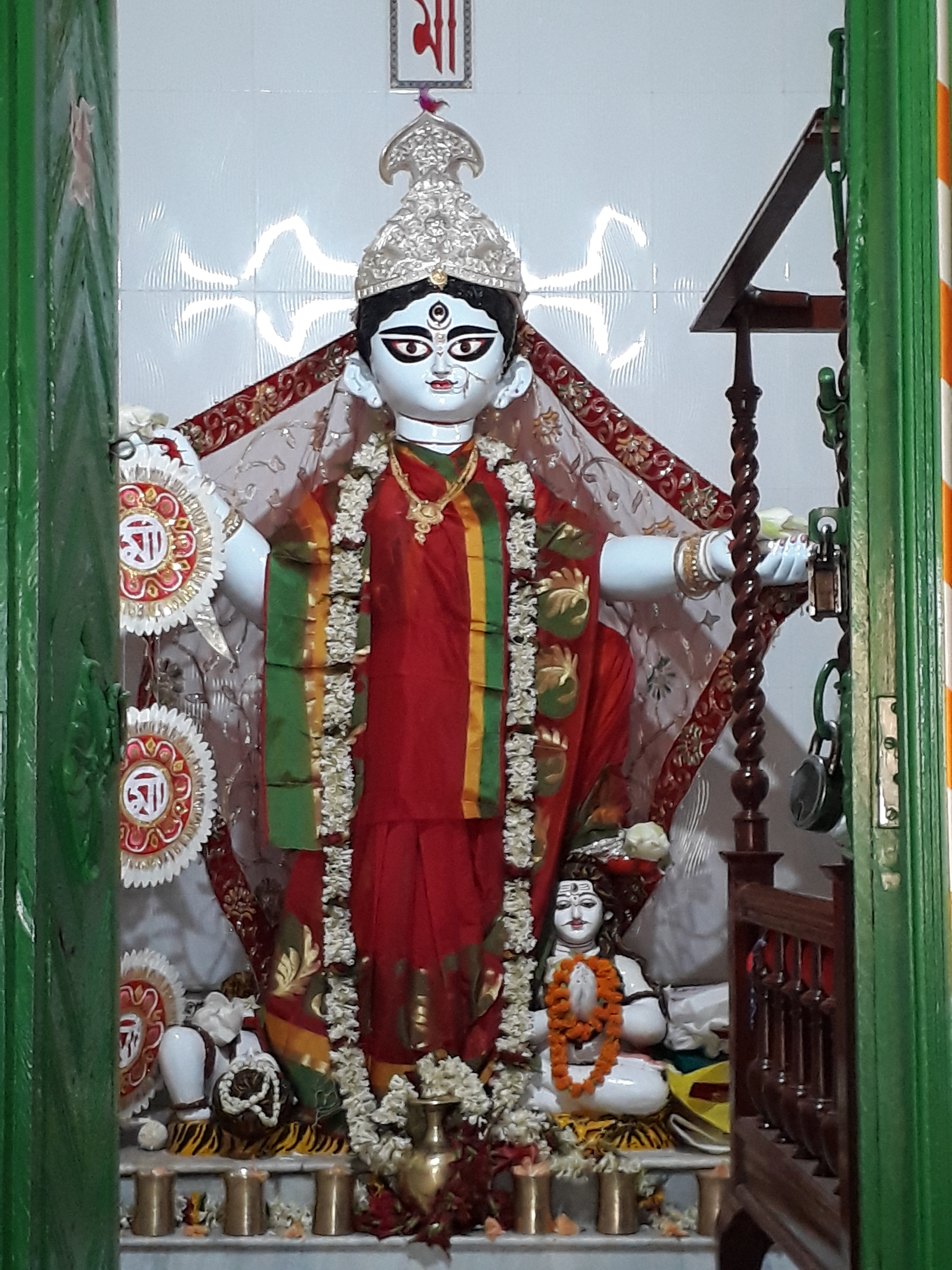 Rajballavi temple at Rajbalhat, Hooghly district.